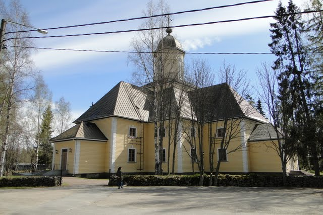 Puumala Church in Puumala, Finland